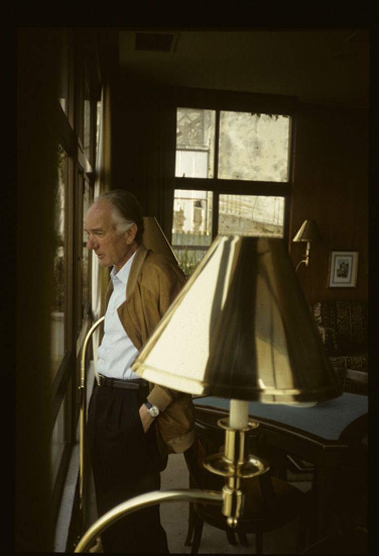 Photograph of Thomas Bernhard. Taken in Sintra, Portugal